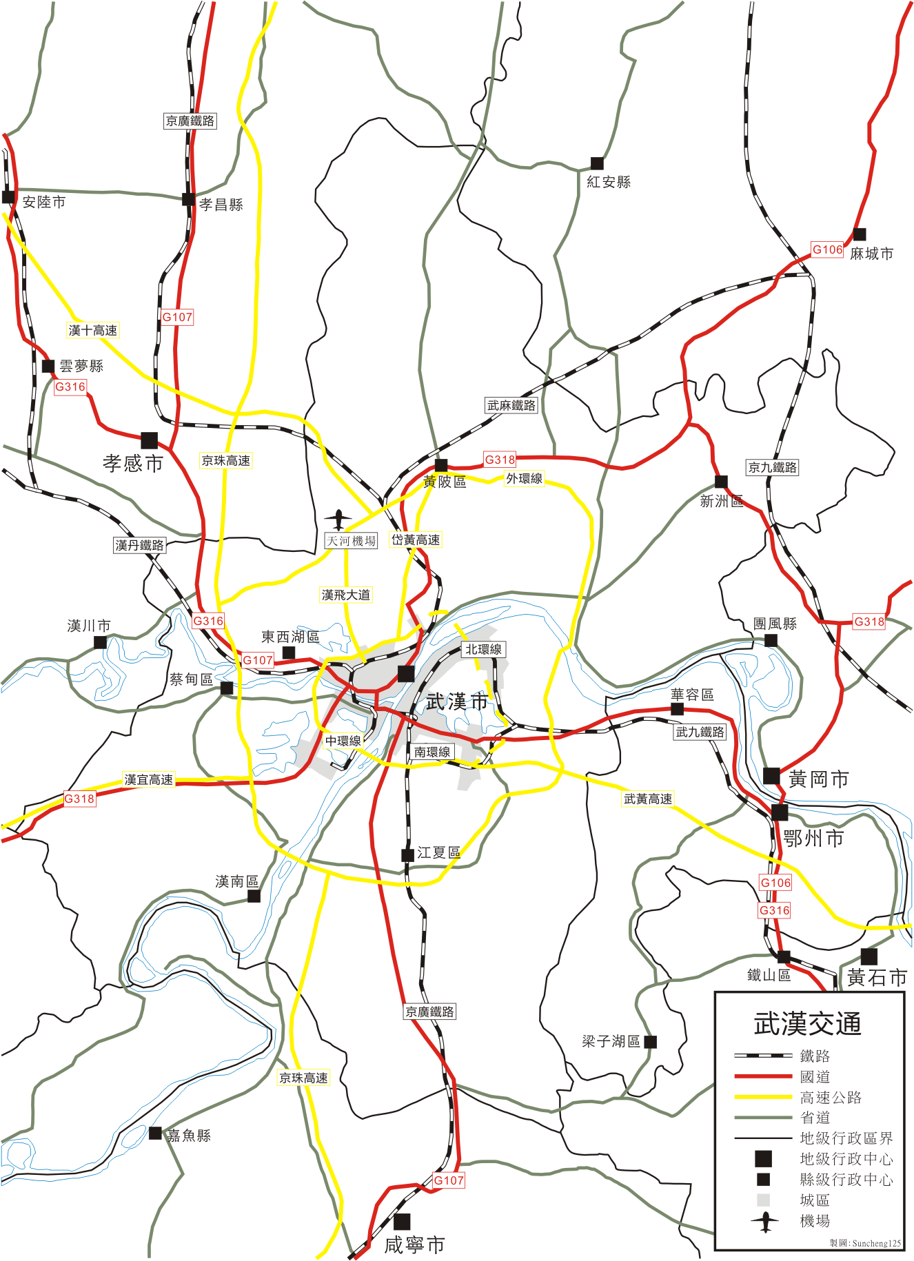 Major roads and railways of the Wuhan metropolitan area